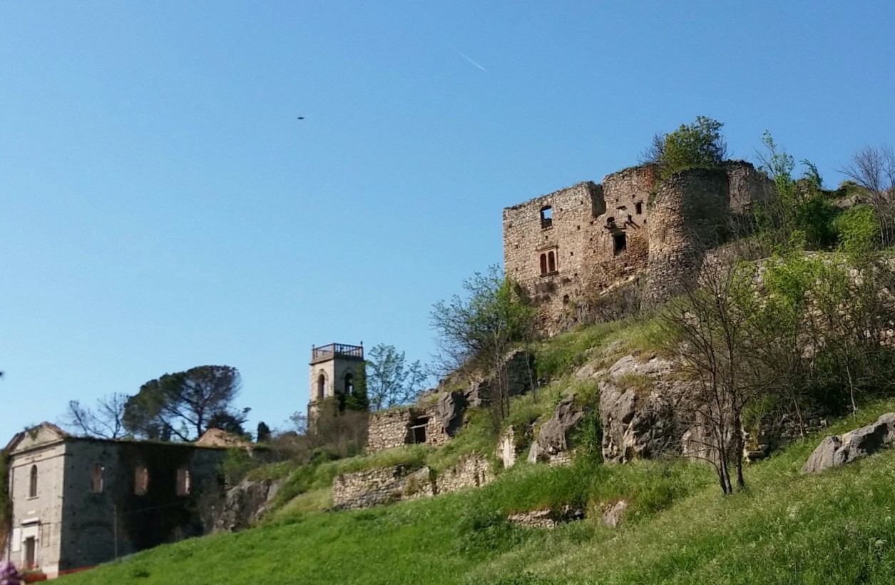 The historical center of Melito Irpino, Italy